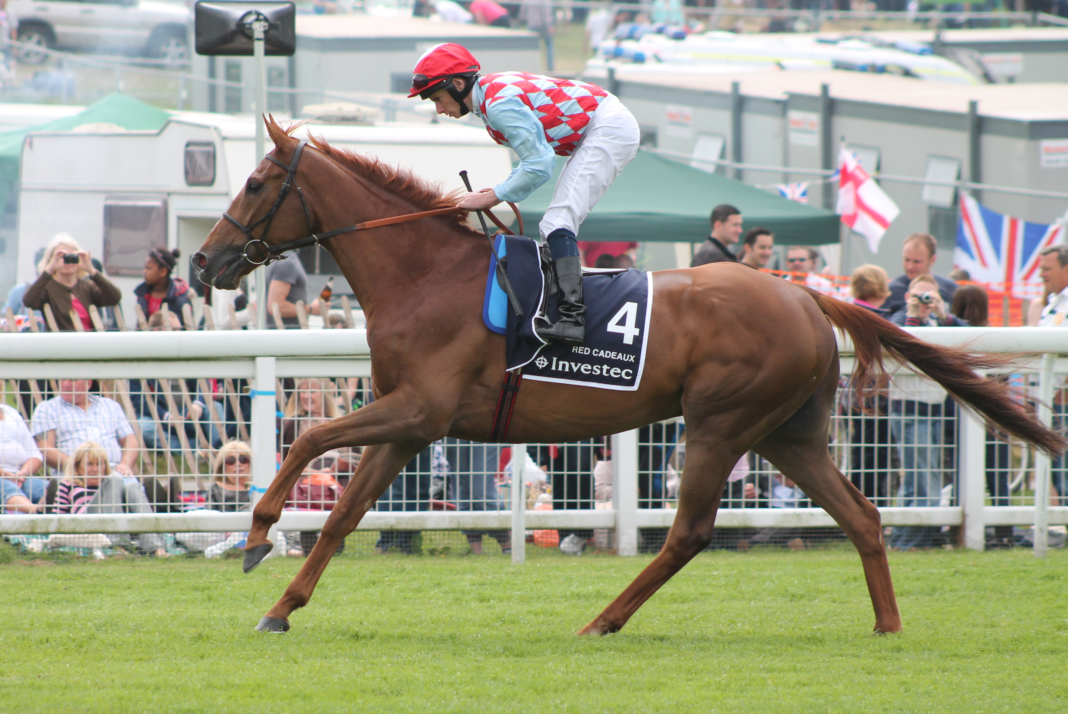 Red Cadeaux at Coronation Cup.